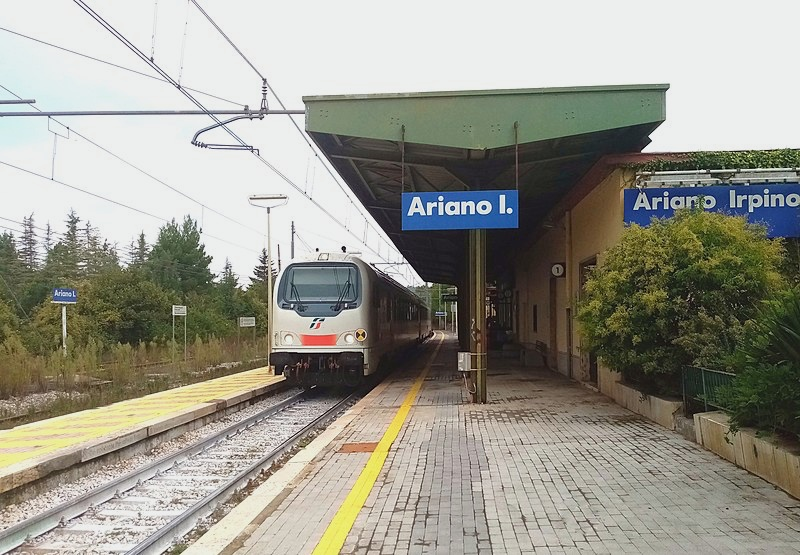 An InterCity train in Ariano Irpino railway station, Italy